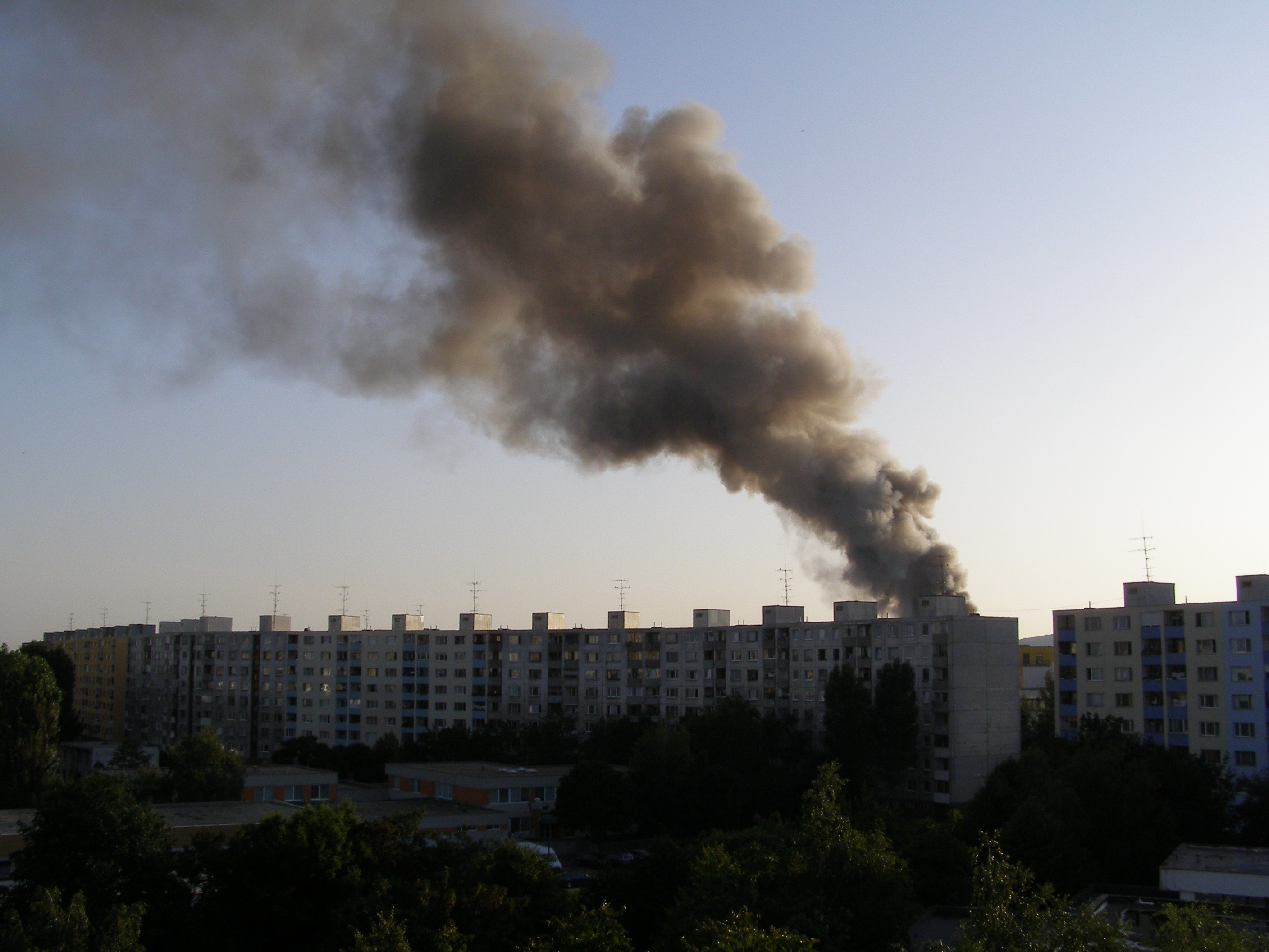 Fire in former "Matador" factory, Petržalka, Bratislava